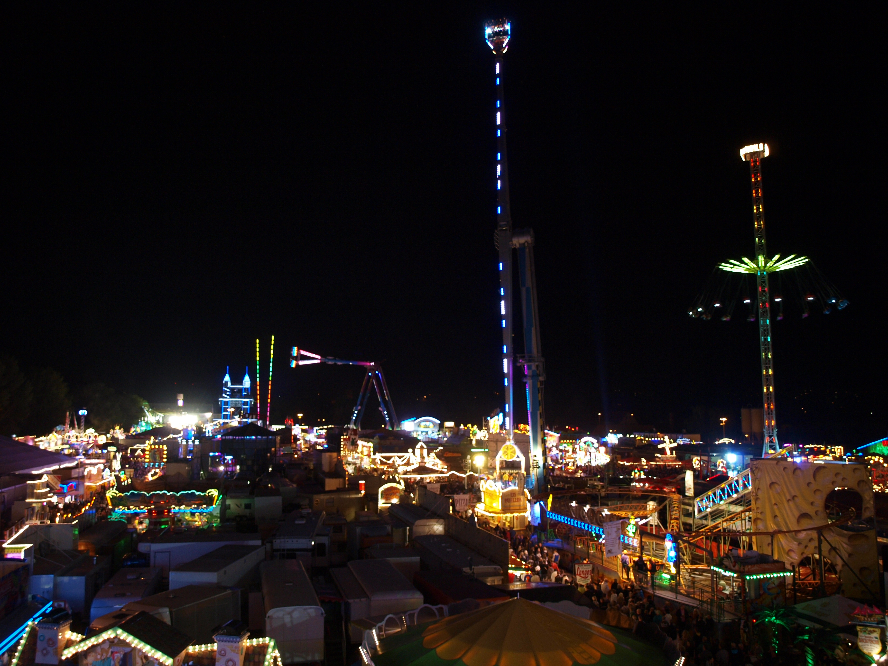 491. Eisleber Wiesenmarkt 2012 - Blick vom Riesenrad über den Festplatz Urheber: Lars Dührsen (Absolut Wiesenmarkt) Rechteinhaber: Absolut Wiesenmarkt ( namentlich: Lars Dührsen, Matthias Kuhn